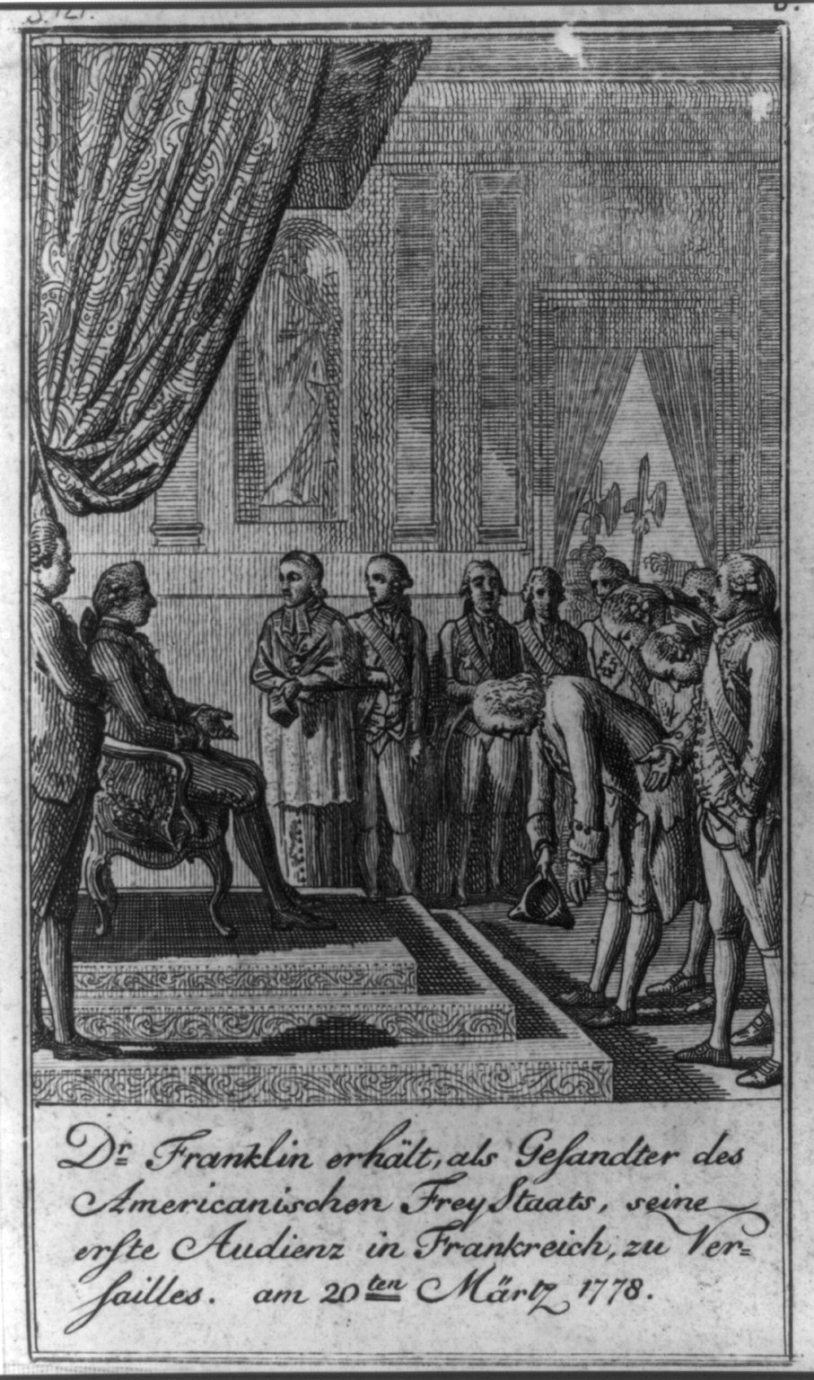 Dr. Franklin is recieved first time in audience as ambassador of the American free state in Versailles in March 20, 1778. Engraving shows Benjamin Franklin at the French court in Versailles. CREATED/PUBLISHED: 1784. ARTIST: Daniel Chodowiecki. ENGRAVER: Daniel Berger. REPOSITORY: Library of Congress Prints and Photographs Division Washington, D.C. 20540 USA.